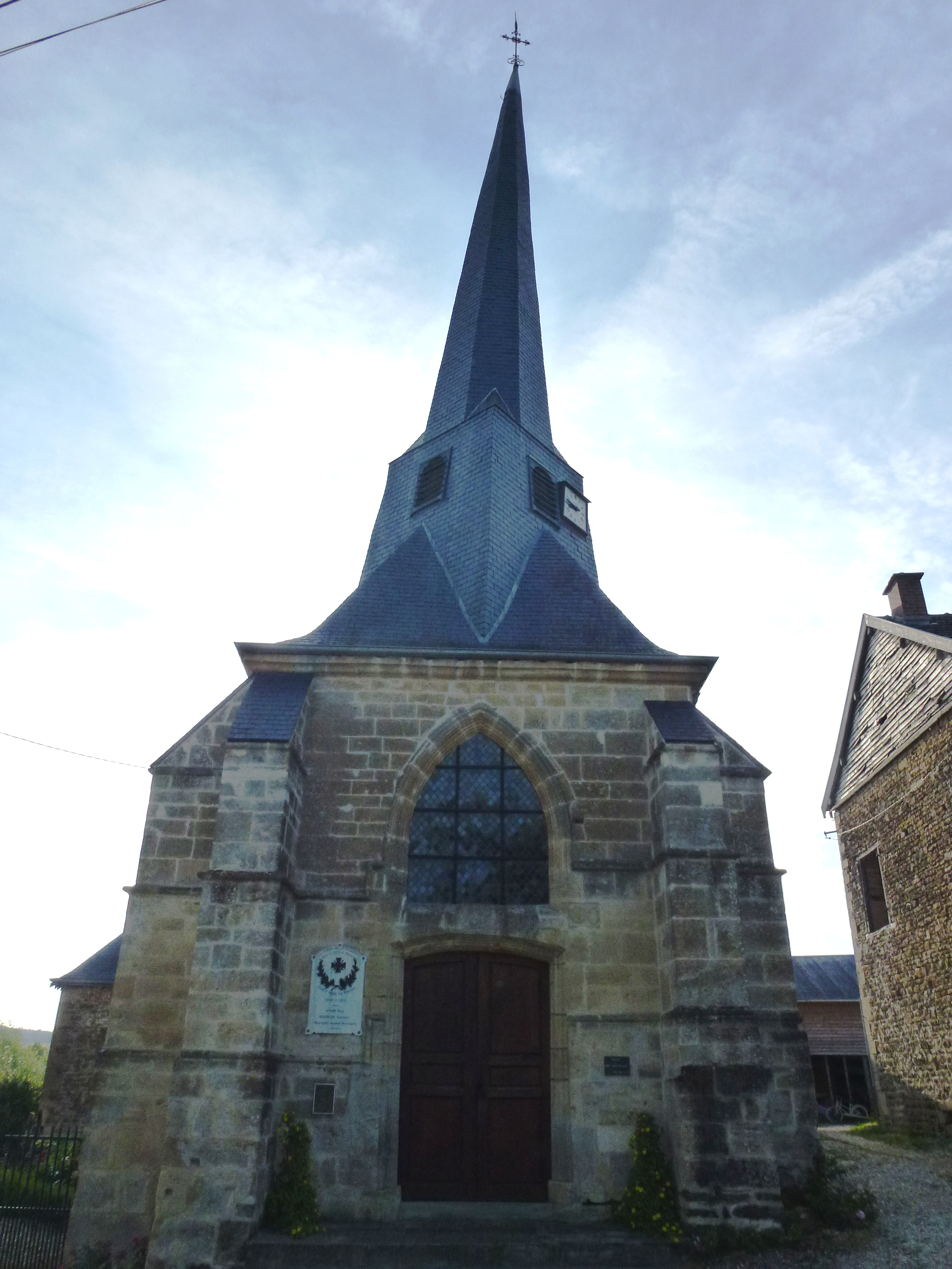 Suzanne (Ardennes) église, façade